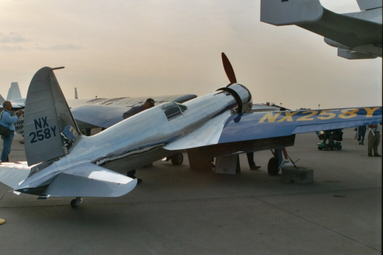 Hughes H1 Racer Replica at Experimental Aircraft Association Convention 2003